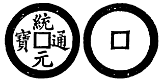 No. 63. (Barker: none) Obverse: 統元通寶 Thong-nguyen-thong-bao. Reverse: plain. Copper coin issued by King 恭皇 Cung-hoang (1523-1528). 11th King. 莊宗 TRANG-TONG 1533-1549. One son of the Prince 諠 Y, called 寧 NINH, came down from the Ai-lao, where he had taken refuge, in company with General 阮金 NGUYEN-CAM, and with an army of ten thousand followers began the work of reconquering his kingdom from the usurper. His first act was to send an embassy to China to explain to the Emperor 嘉靖 KIA-TSING the political occurrences which had taken place in Annam. In consequence of this, an Imperial Commissioner was appointed in 1536, and supported by a strong army, passed over the frontier from the province of Kuang-si. On the strength of the Commissioner's report to the Emperor, the sovereignty over Cochinchina was given to the descendant of the LE family, and Tunquin was left to be occupied by the MACS. But Prince Ninh, who reigned under the name of 元和 NGUYEN-HOA, continued the war against the Macs, taking from them the provinces of 清華 Thanh-hoa and 山南 Son-nam.